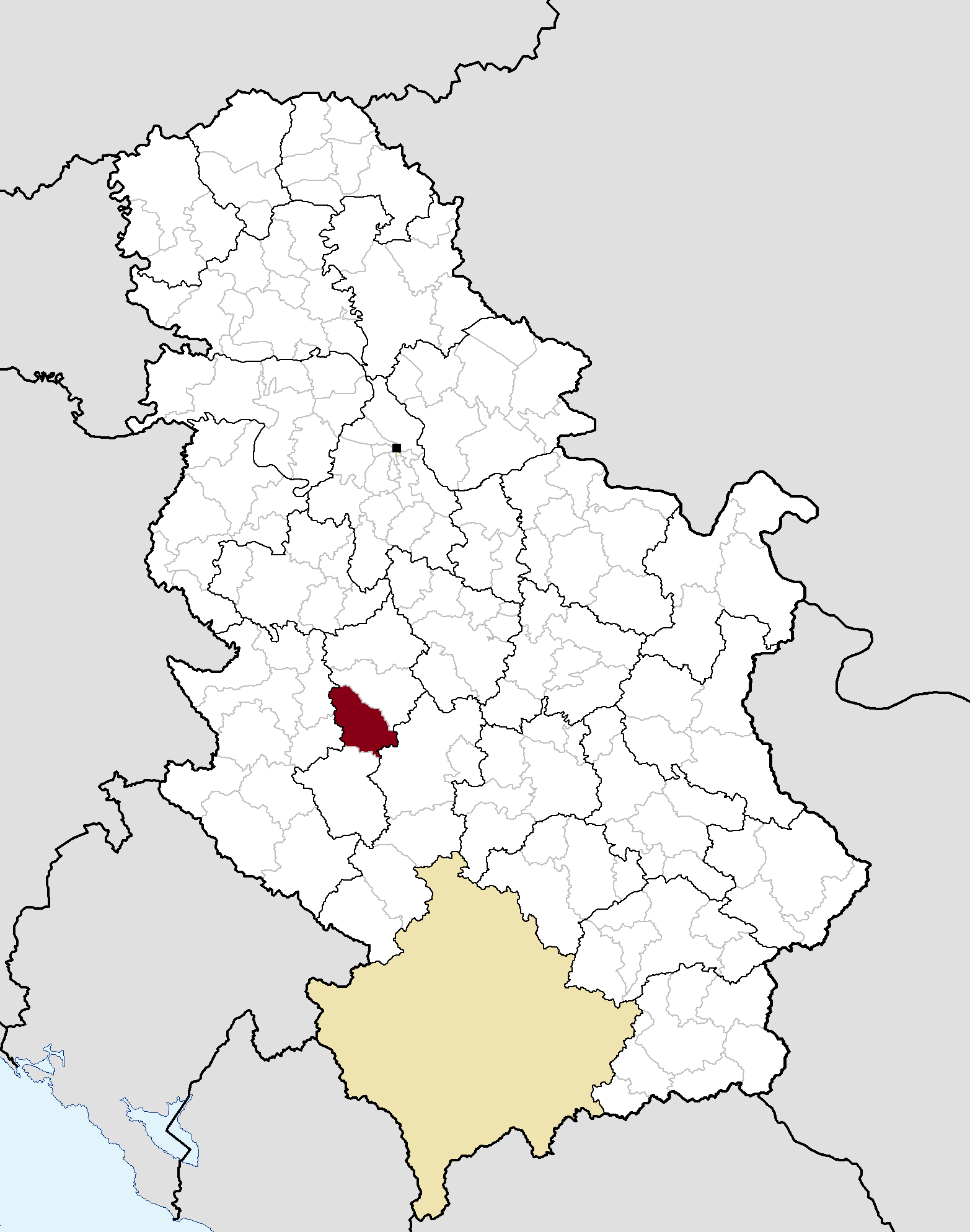 Municipal location in Serbia